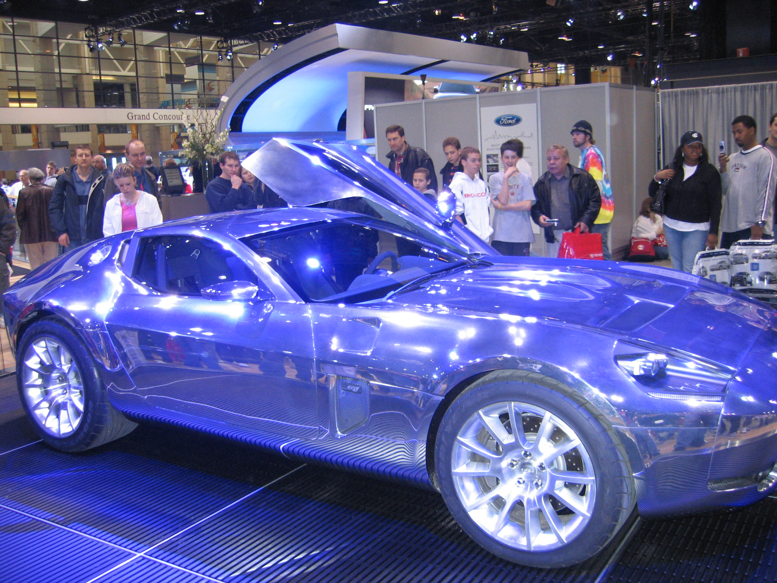 Ford Prototype car a Chicago auto show in 2005